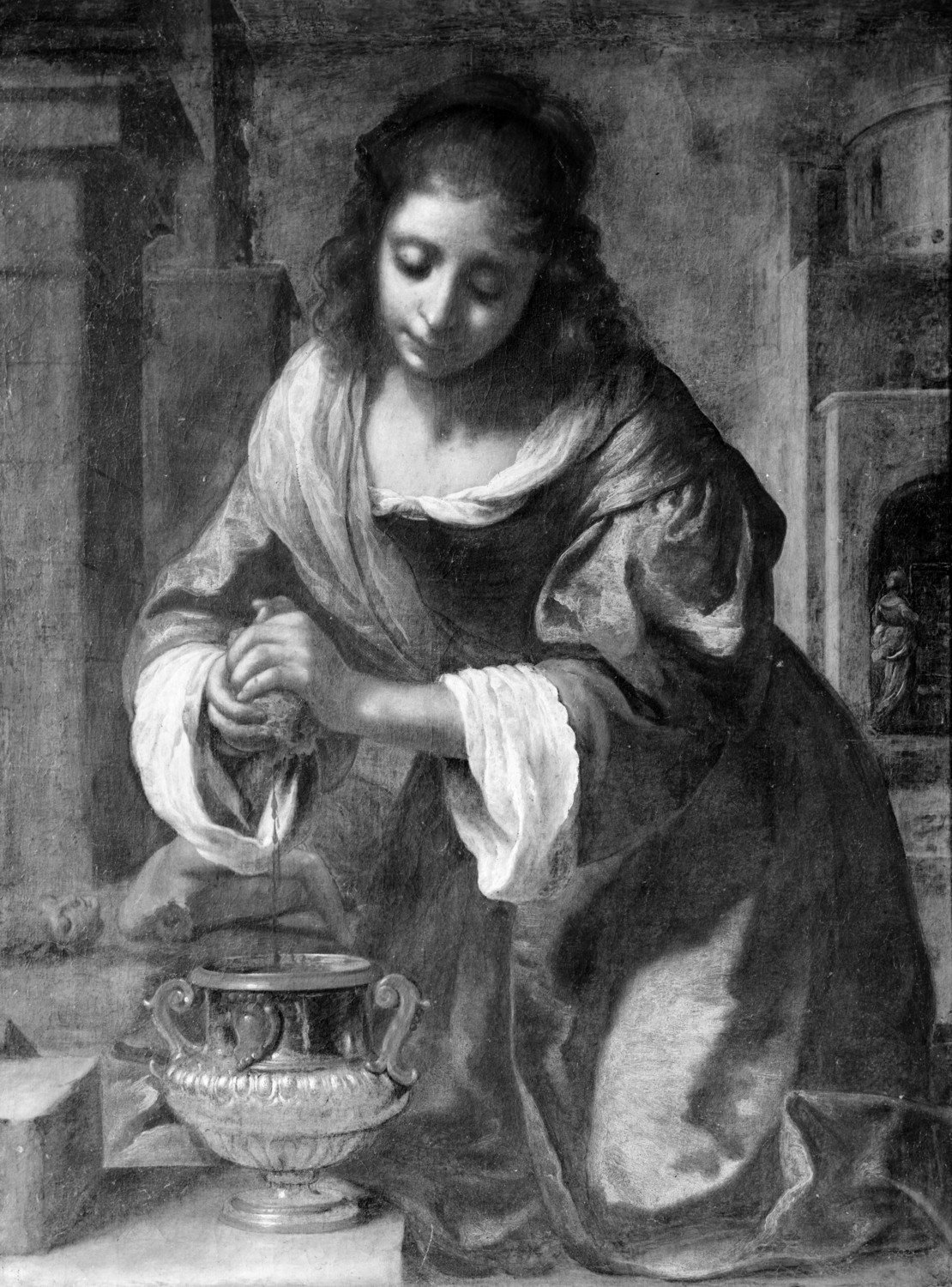 Die heilige Praxedis sammelt das Blut der Märtyrer. Canvas. Height: 108 cm (42.5 ″); Width: 80 cm (31.4 ″) dimensions QS:P2048,108U174728;P2049,80U174728. Ferrara, Private collectioninstitution QS:P195,Q768717.